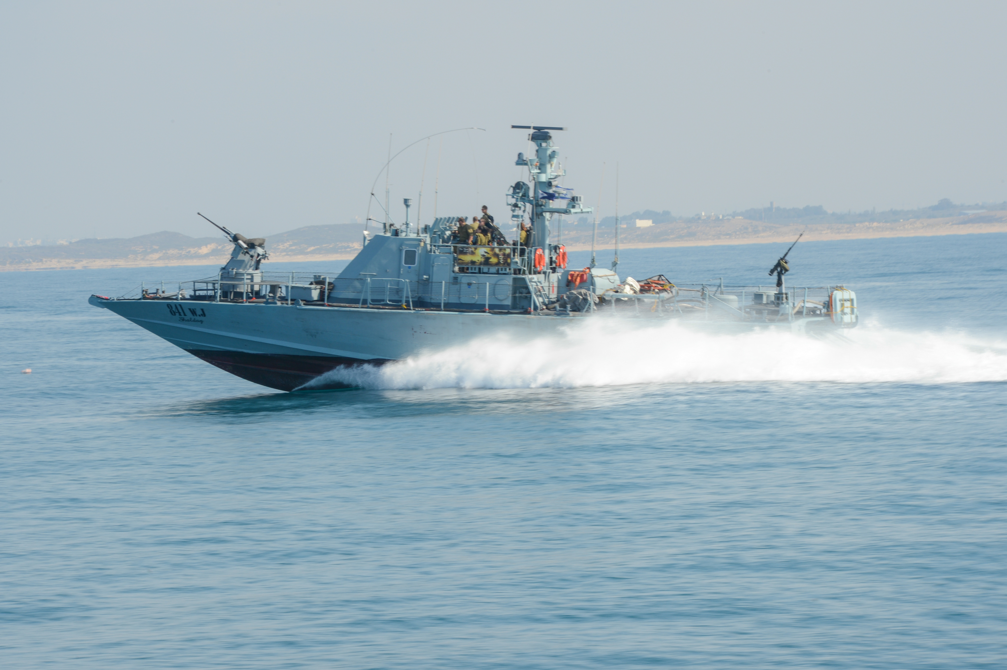 “Shaldag” patrol boats train on Mediterranean Sea, simulating various real life situations.